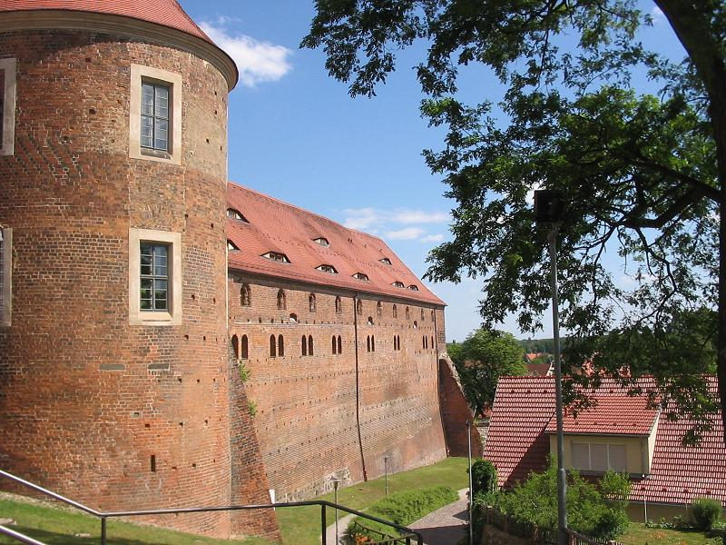 Castle Eisenhardt in Belzig. Belzig is the central town of the district Potsdam-Mittelmark in the state Brandenburg of Germany. Belzig appertains to the natural preserve Naturpark Hoher Fläming.